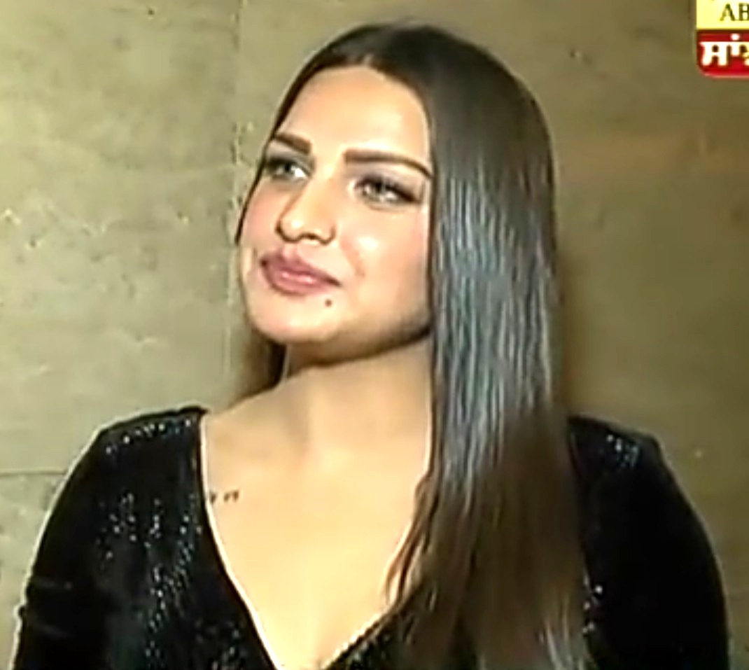 Himanshi Khurana